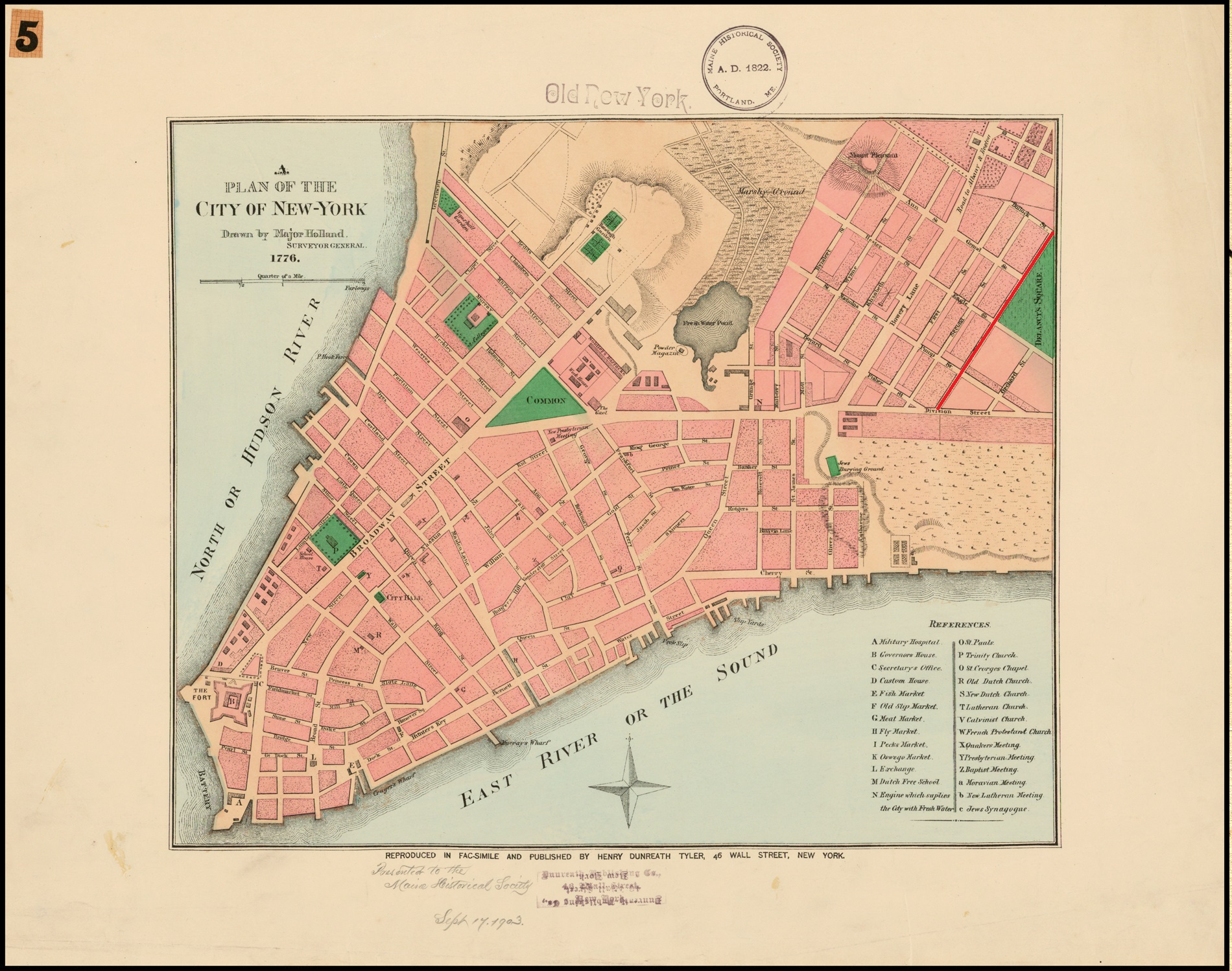 Reproduction of a map of the City of New York by Samuel Holland showing Eldridge Street